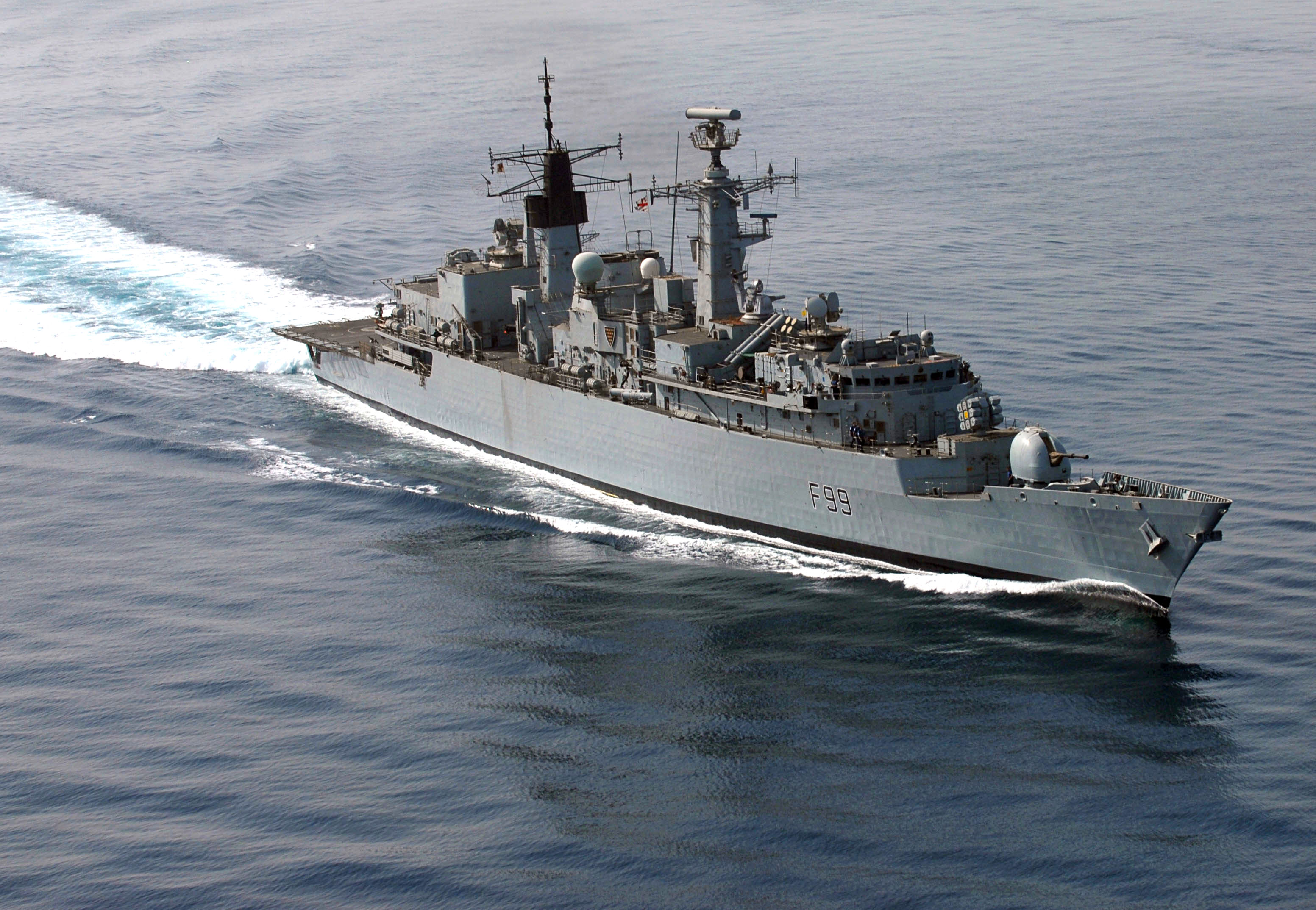 PERSIAN GULF (May 29, 2007) - British frigate HMS Cornwall (F 99) transits through the Persian Gulf with Nimitz-class aircraft carrier USS John C. Stennis (CVN 74) nearby. John C. Stennis Carrier Strike Group is conducting operations in support of the global war on terrorism and is participating in an Expeditionary Strike Force exercise with Nimitz Carrier Strike Group, and Bonhomme Richard Expeditionary Strike Group.